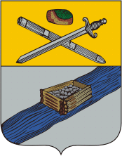 Ryazhsk (Ryazan oblast), coat of arms (1779)